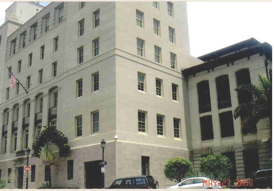 The old Feseral Court House in Old San Juan, Puerto Rico